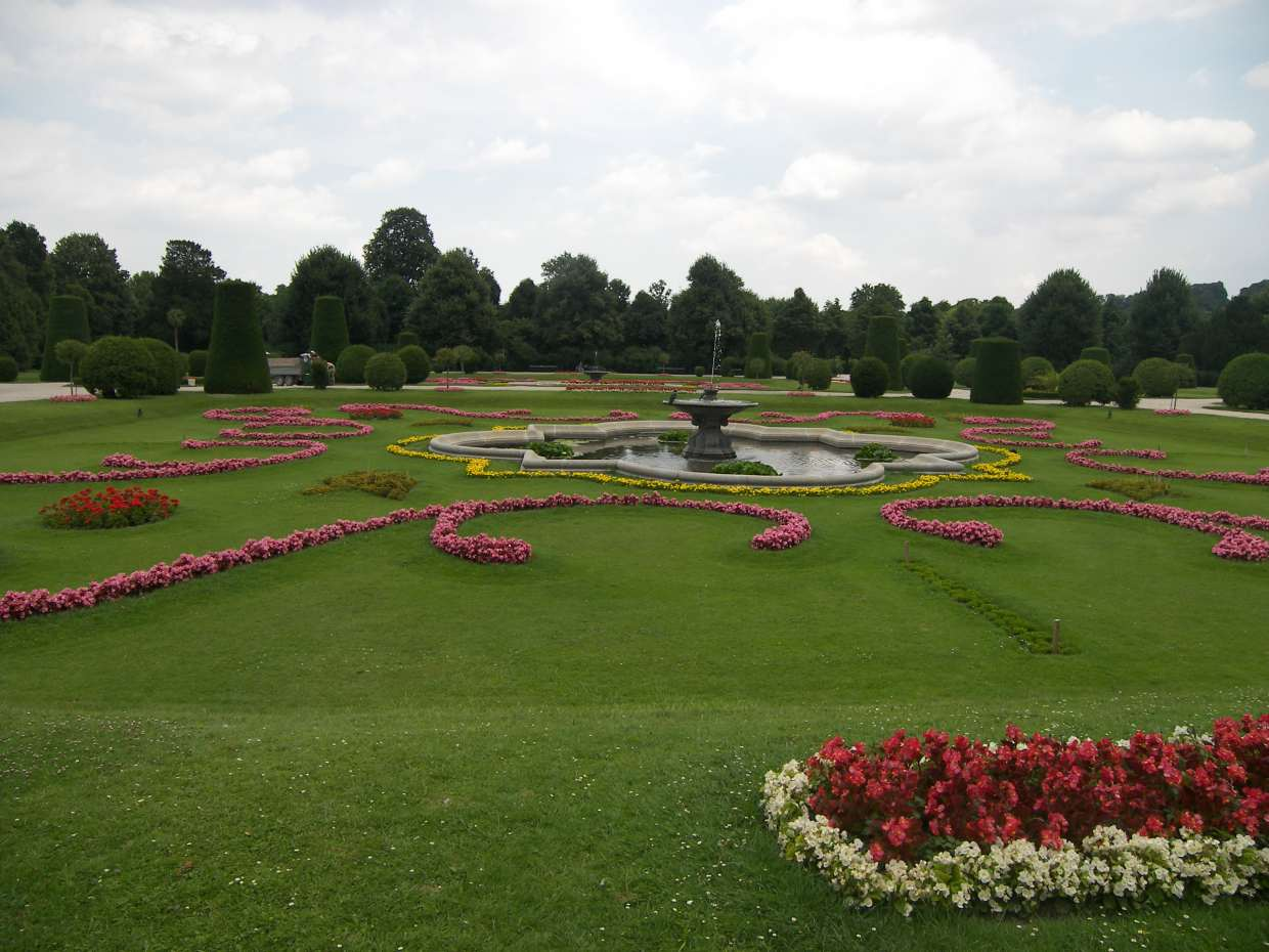 Austria, Vienna, Tiergarten Schönbrunn